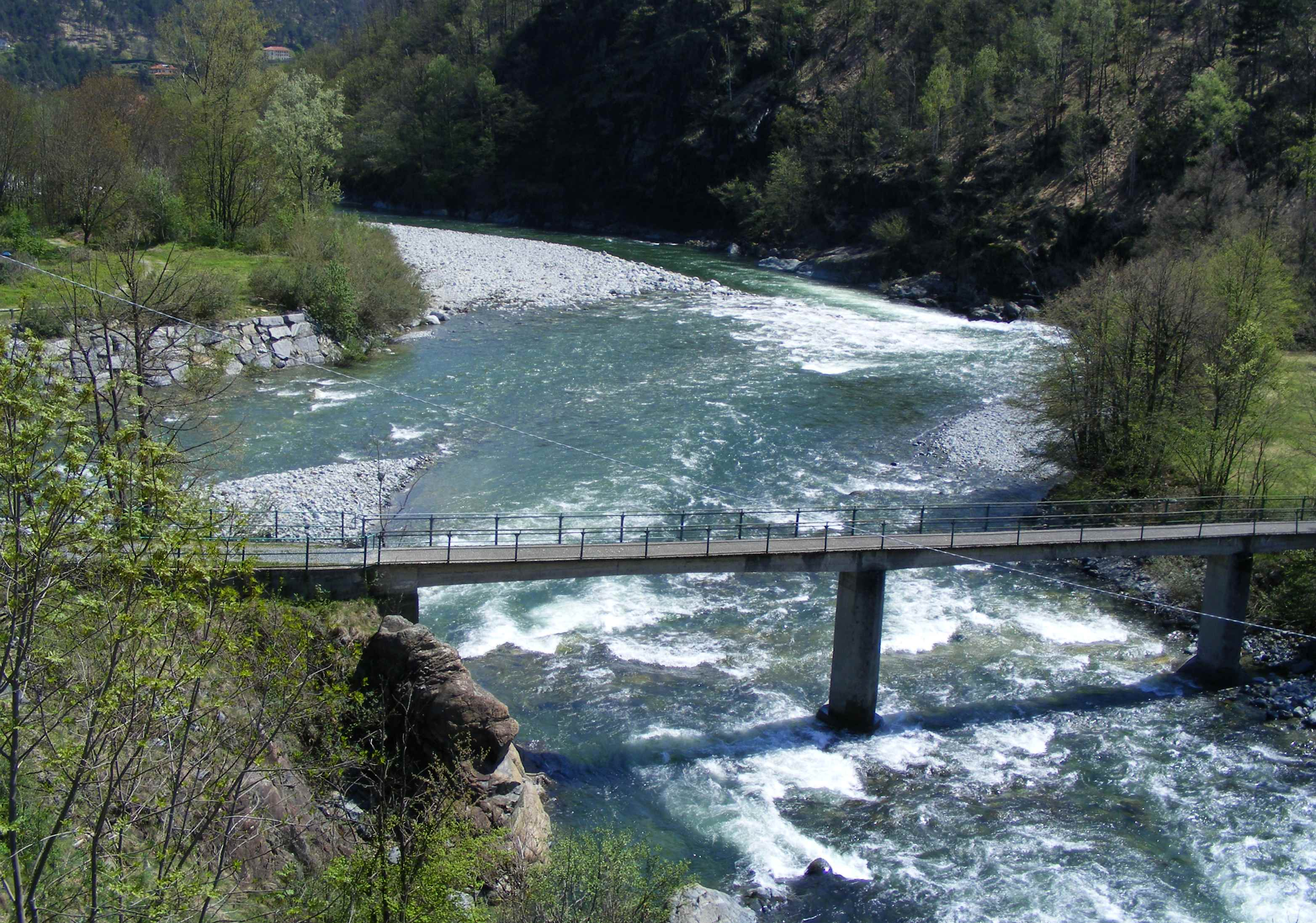 Traves (TO, Italy): Stura di Lanzo and Stura di Viù